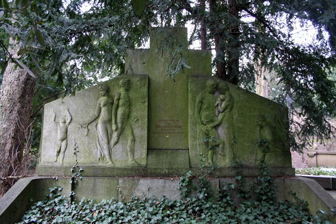 This photo shows the family tomb of Julius Poensgen and Louise Poensgen, born Mayer, in the northern cemetery of Düsseldorf (Field F2). The impressive relief was created by Gregor von Bochmann (1878 - 1914) around 1907. It is meant to represent "Four Ages".